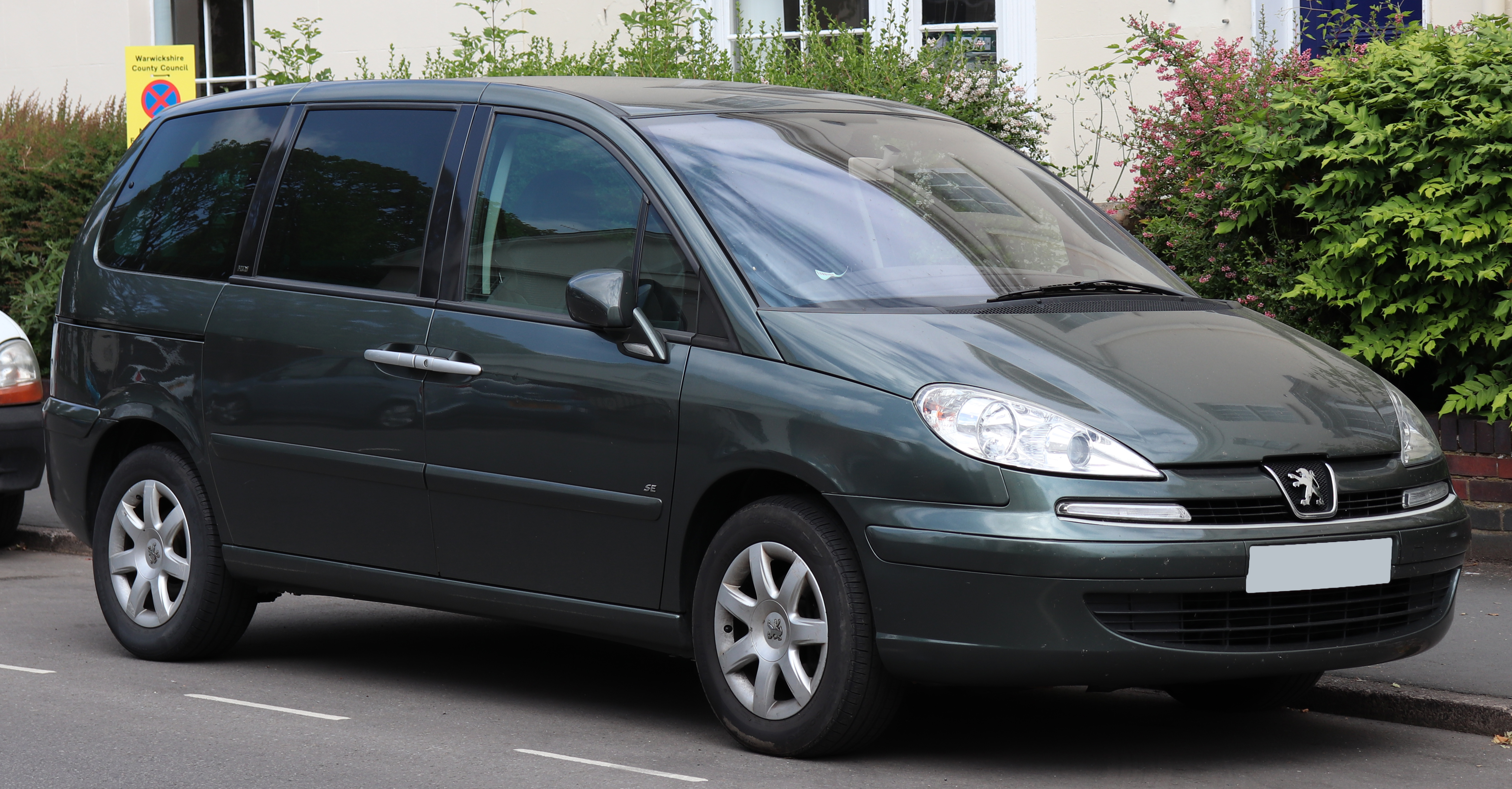 2006 Peugeot 807 SE HDi 2.0 Front Taken in Leamington Spa